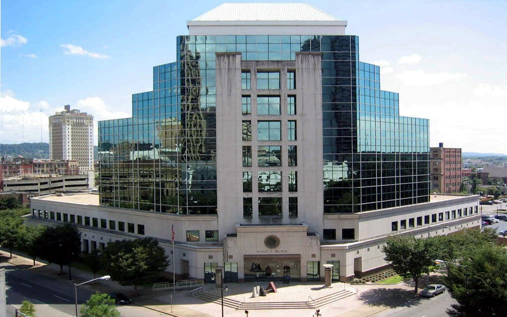 The Hugo L. Black U. S. Courthouse, home of the United States District Court Northern District of Alabama